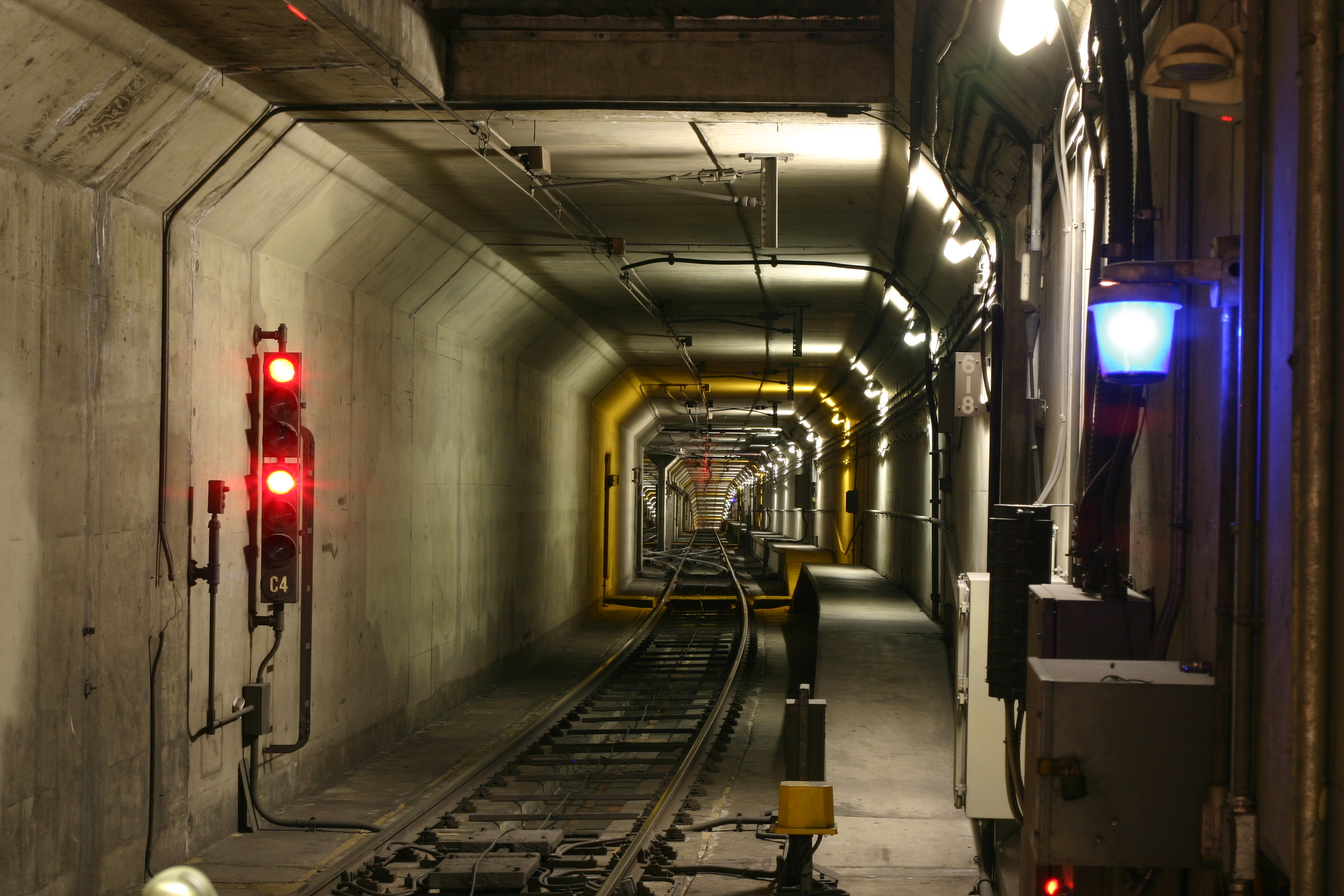 Market Street Subway just east of Castro Street Station, showing the pair of crossovers